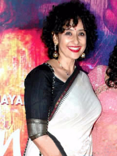 Manisha Koirala at Premiere of 'Rang Rasiya / Colors of Passion' at Cinemax